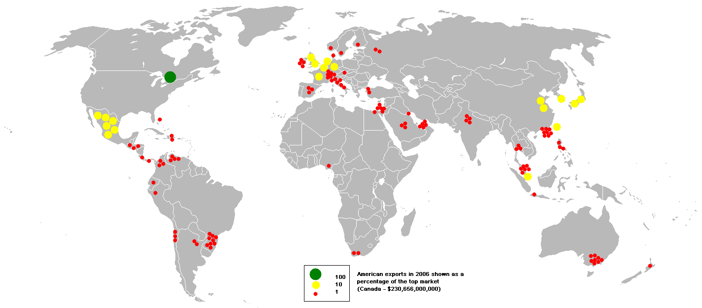 This bubble map shows the global distribution of US exports (f.a.s.) in 2005 as a percentage of the top market (Canada - $230,656,000,000). This map is consistent with incomplete set of data to as long as the top market is known. It resolves the accessibility issues faced by colour-coded maps that may not be properly rendered in old computer screens. Data was extracted on 25th June 2007 from Based on :Image:BlankMap-World.png